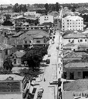 Partial view of São José do Rio Preto, São Paulo, Brazil, in 1940.